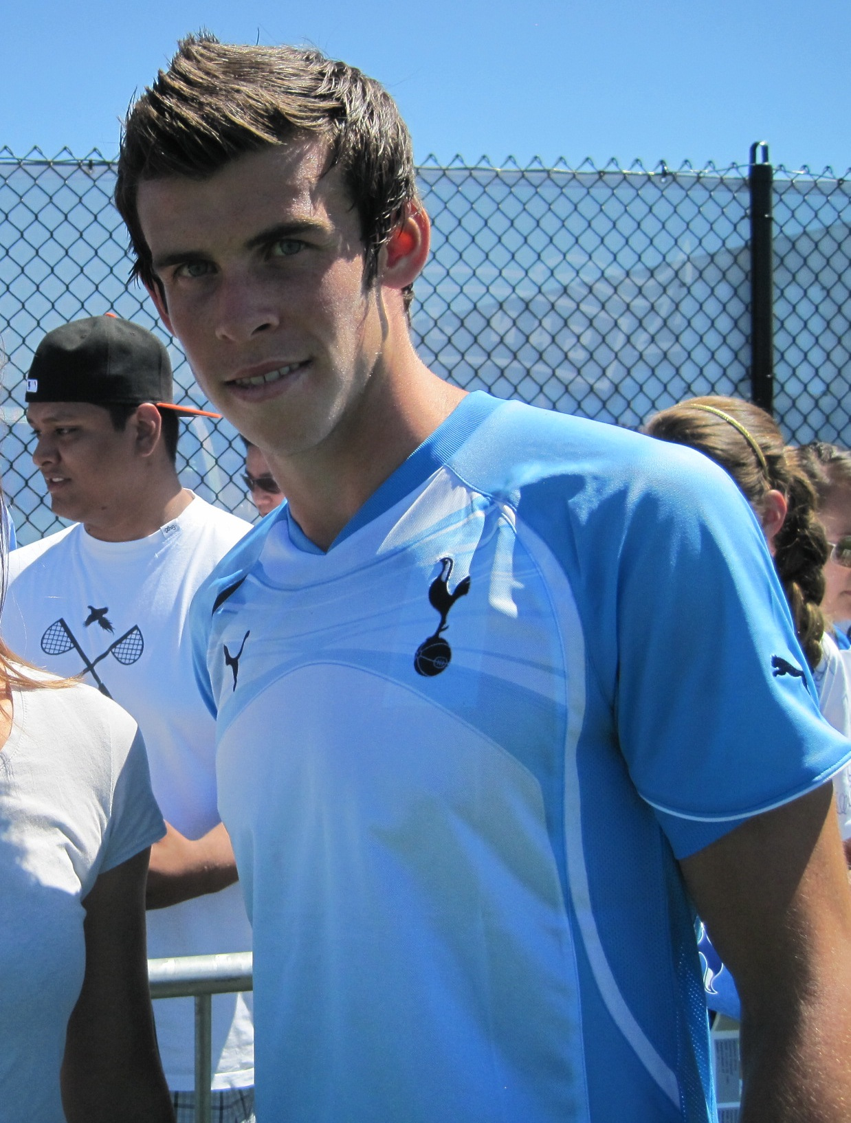 Gareth Bale, Welsh footballer for Tottenham Hotspur